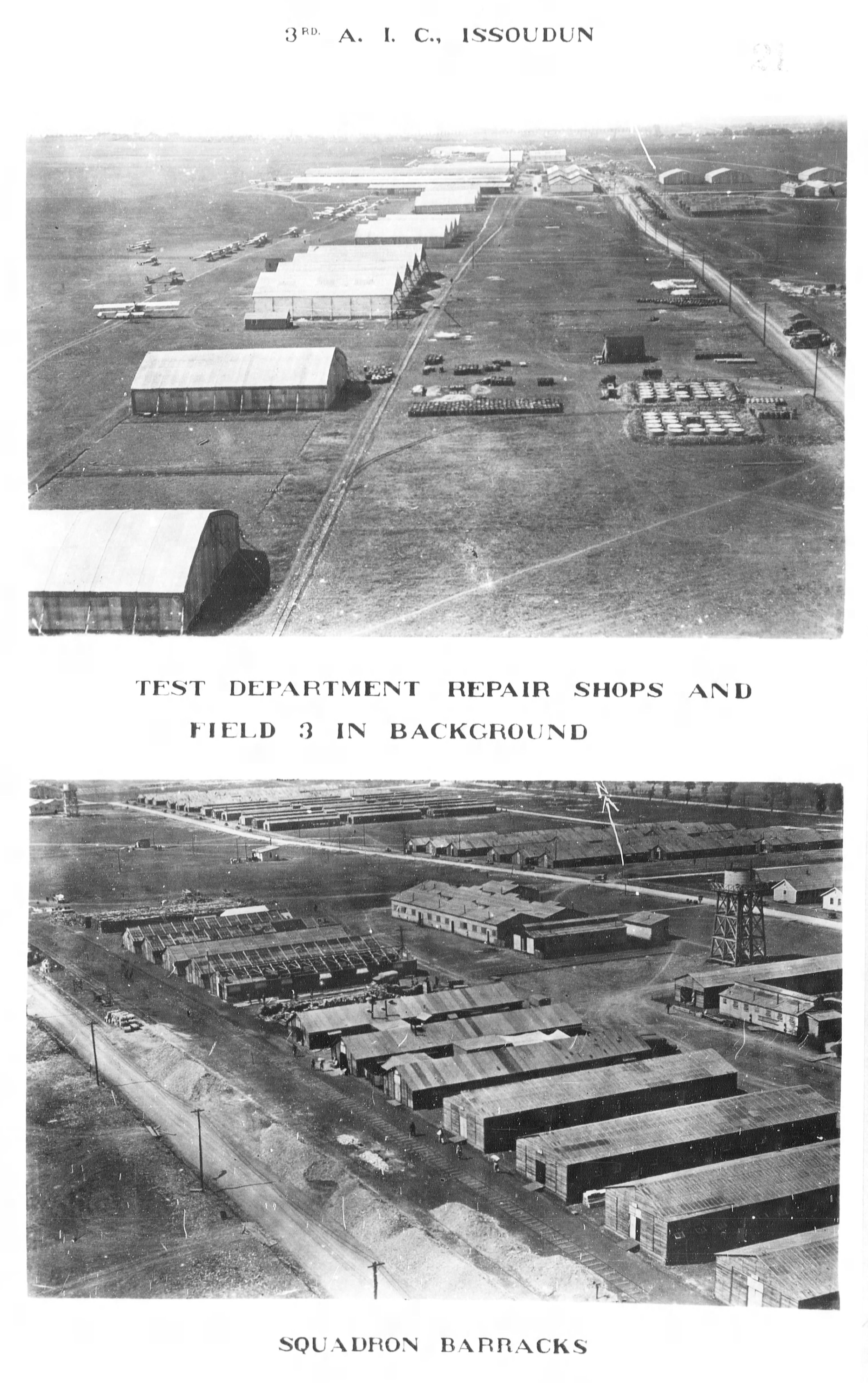 Issodun Aerodrome - 3d Air Instructional Center Facilities, 1918